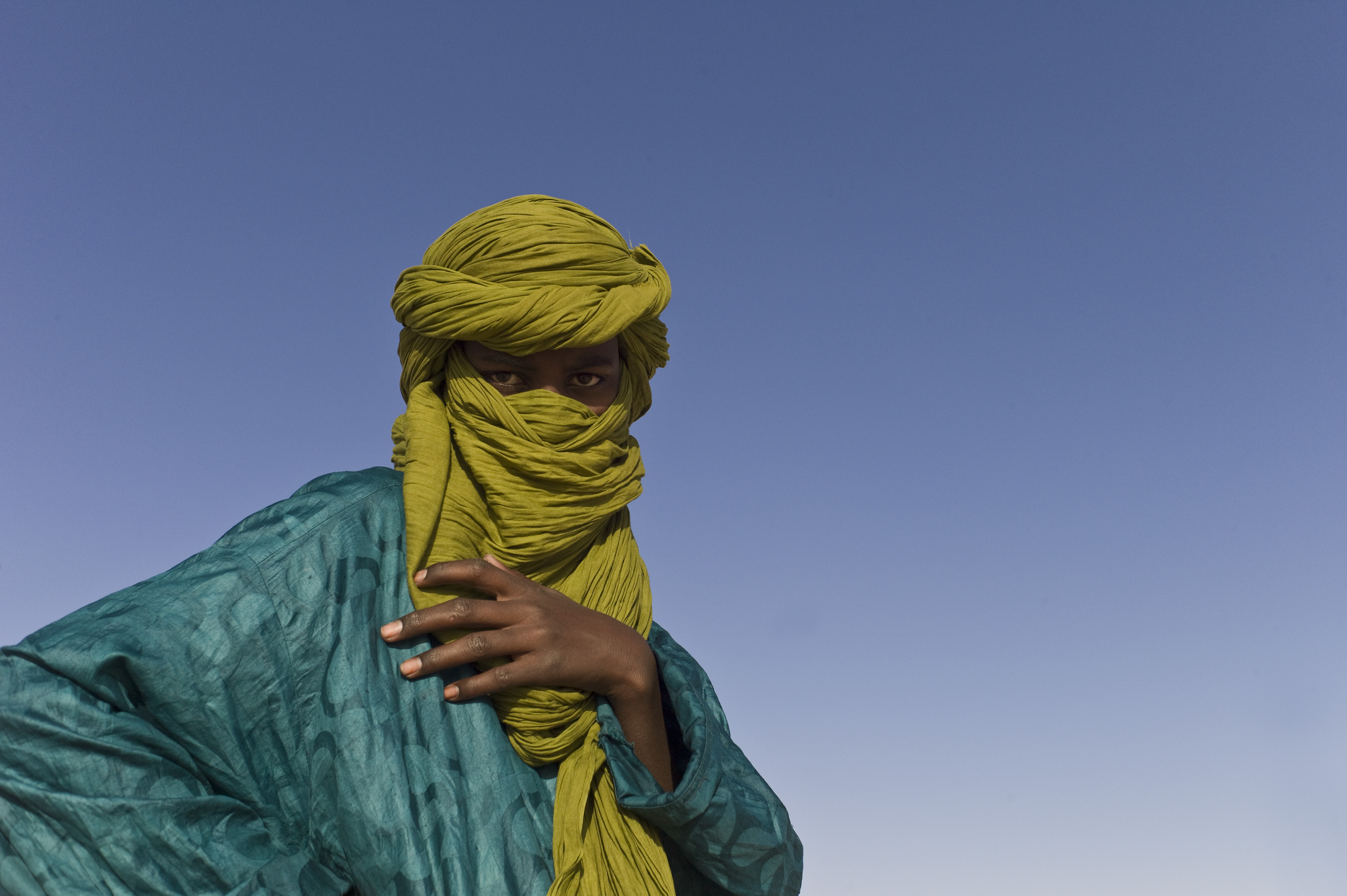 Tuareg at the Festival au Désert near Timbuktu, Mali 2012